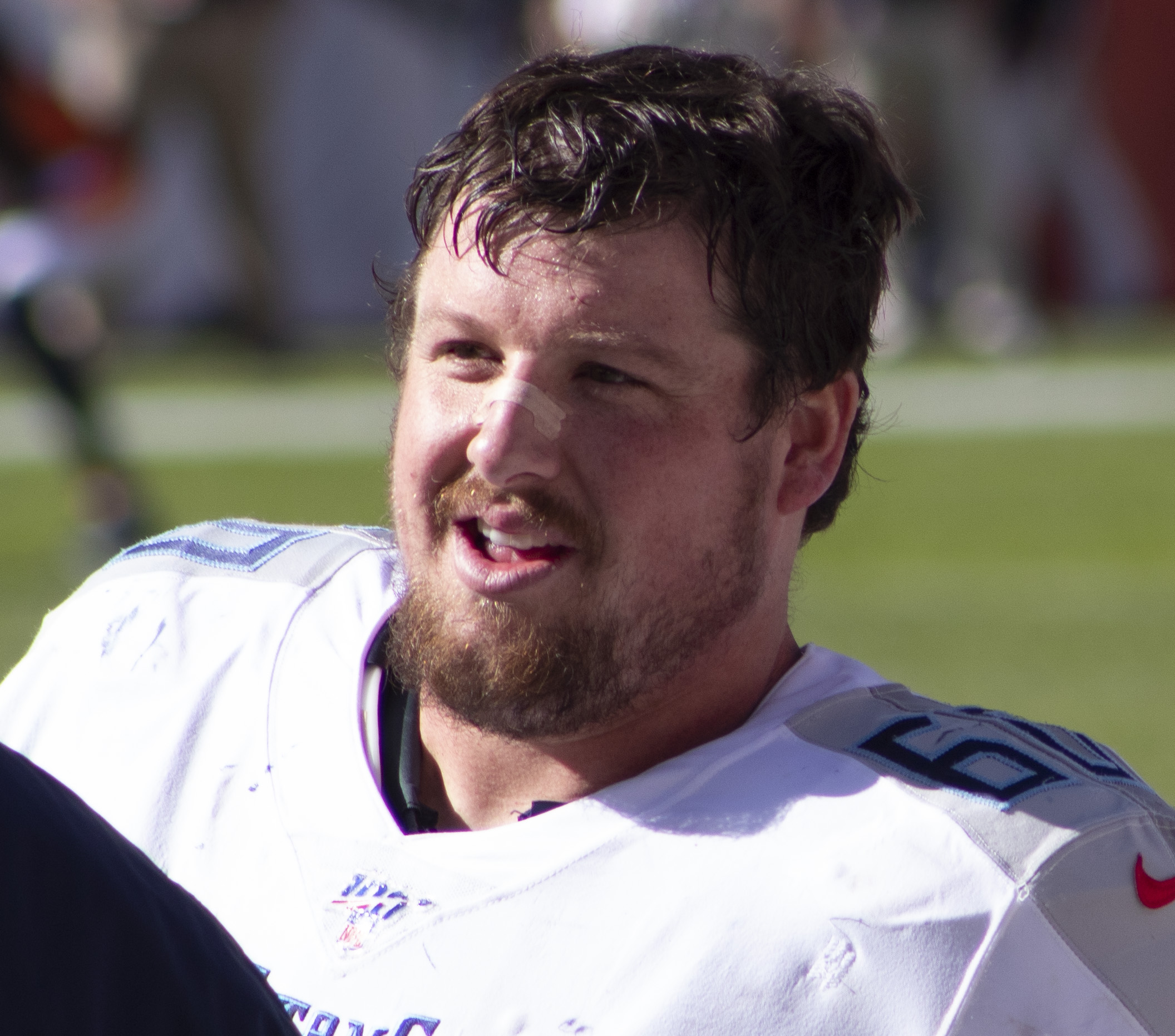 Ben Jones with the Tennessee Titans on October 13, 2019